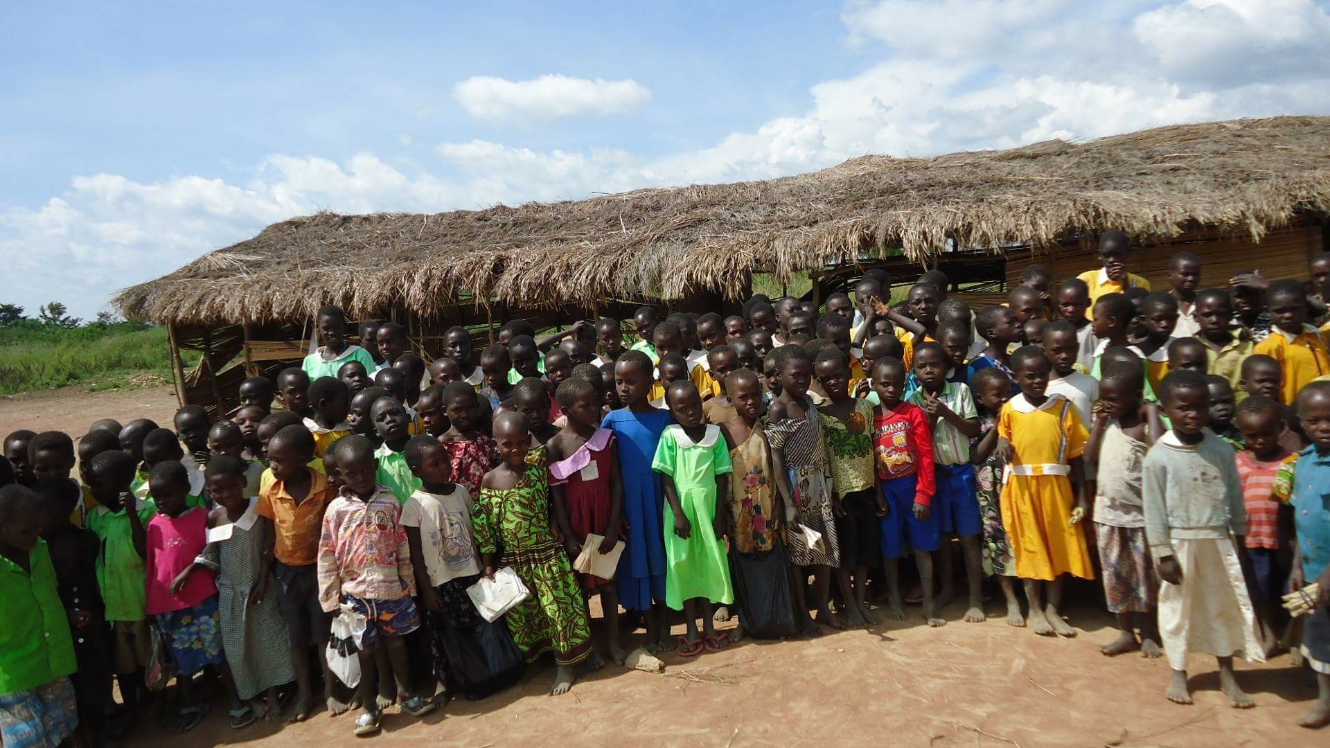 The opening of this school in my village came as a result of pupils treking for a long distance in search of a school. This is an image of "African people at work" from Uganda